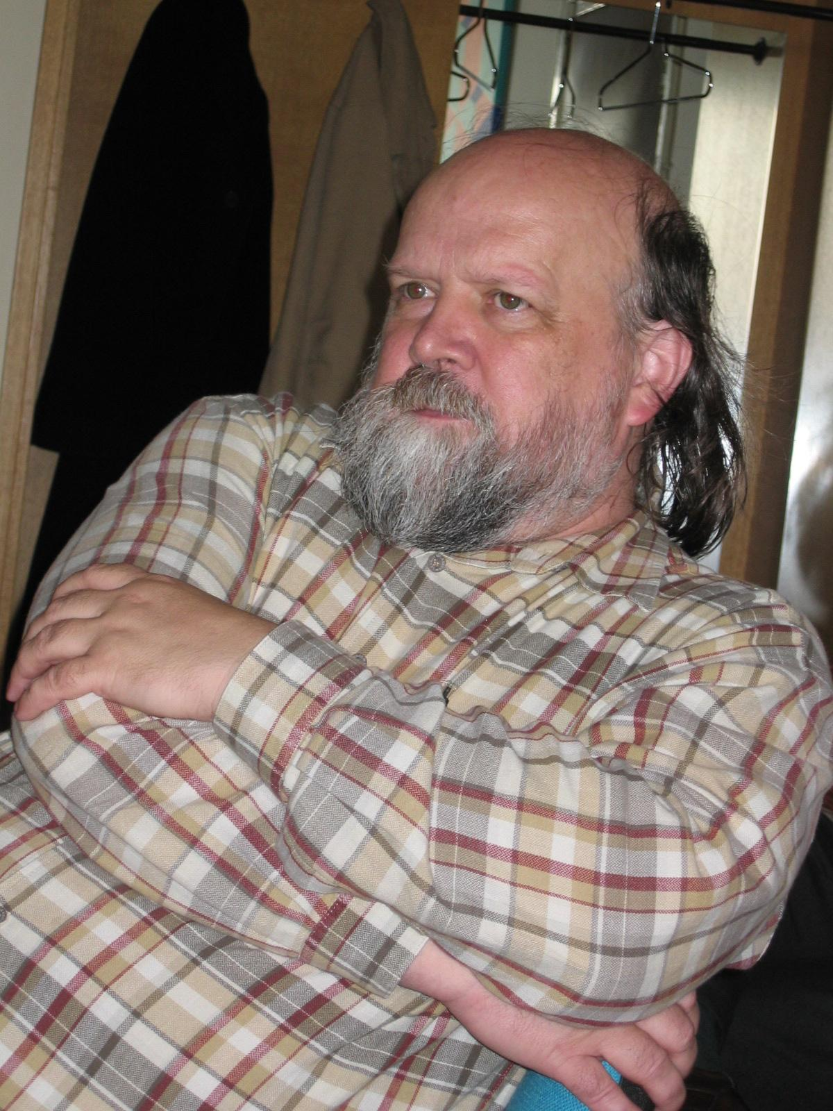 Vladimir Batagelj, Slovenian mathematician, works mainly in data analysis and discrete mathematics.